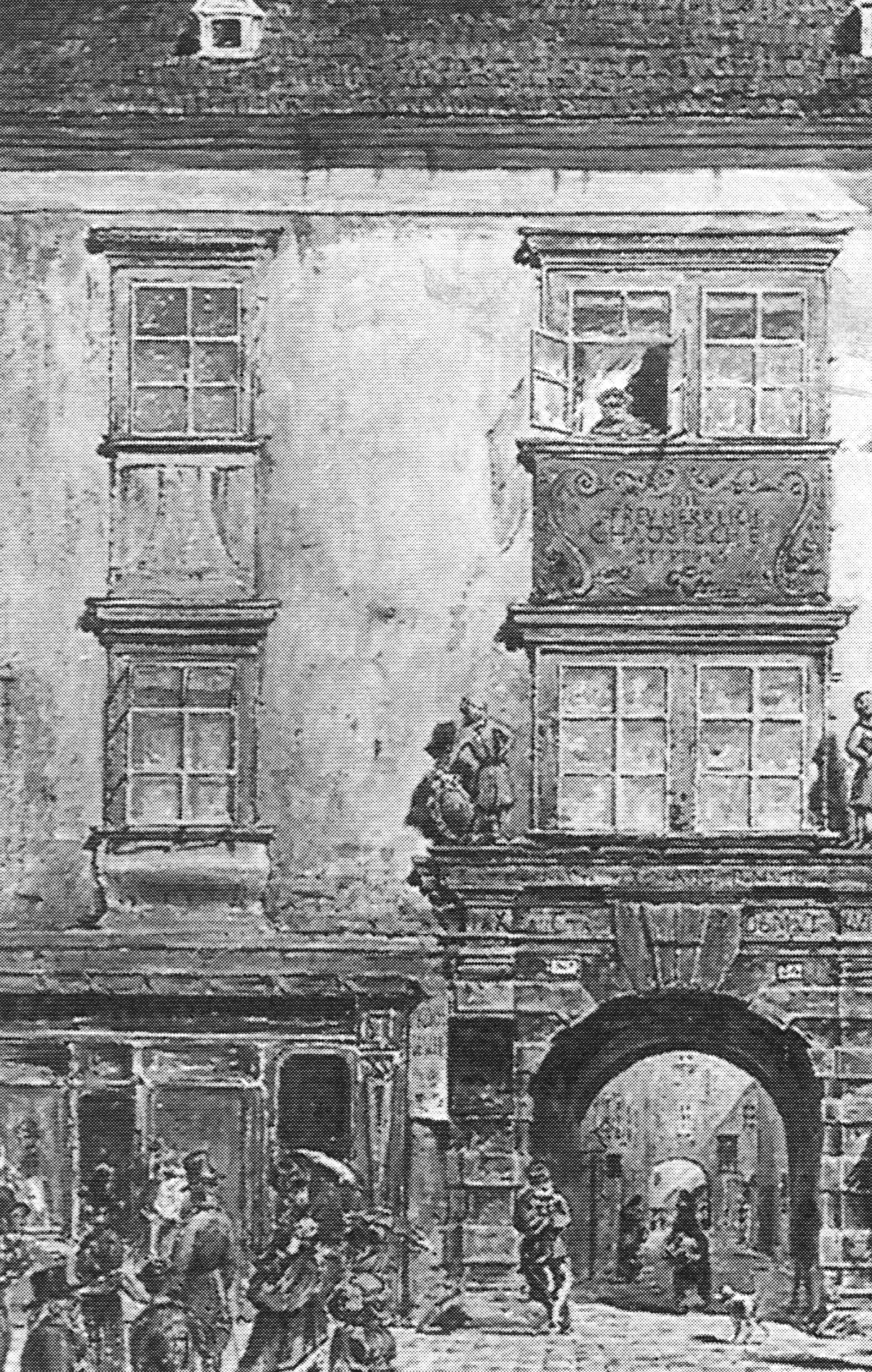 Chaossches Stiftungshaus, Vienna before demolition in 1873